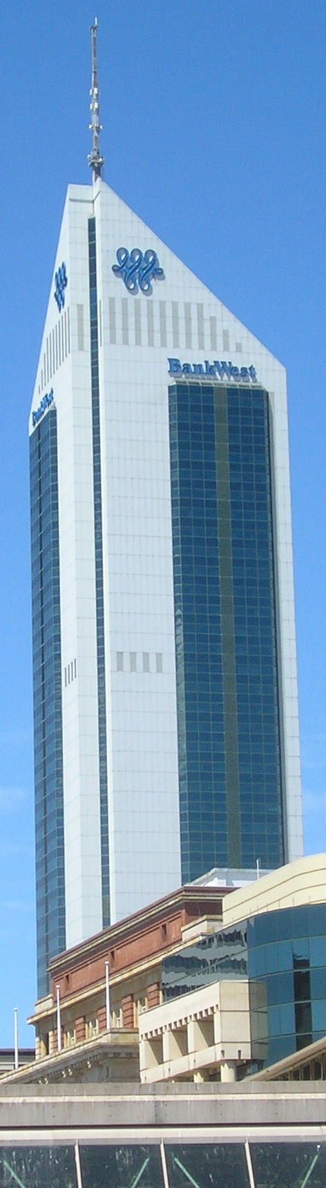 The BankWest Building/Tower located in the CBD of Perth, Western Australia.